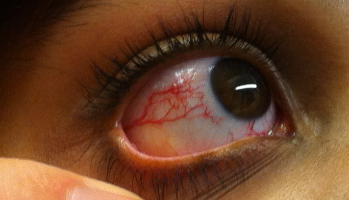 This photo shows the prominent ocular telangiectasia that can be seen in some people with A-T.